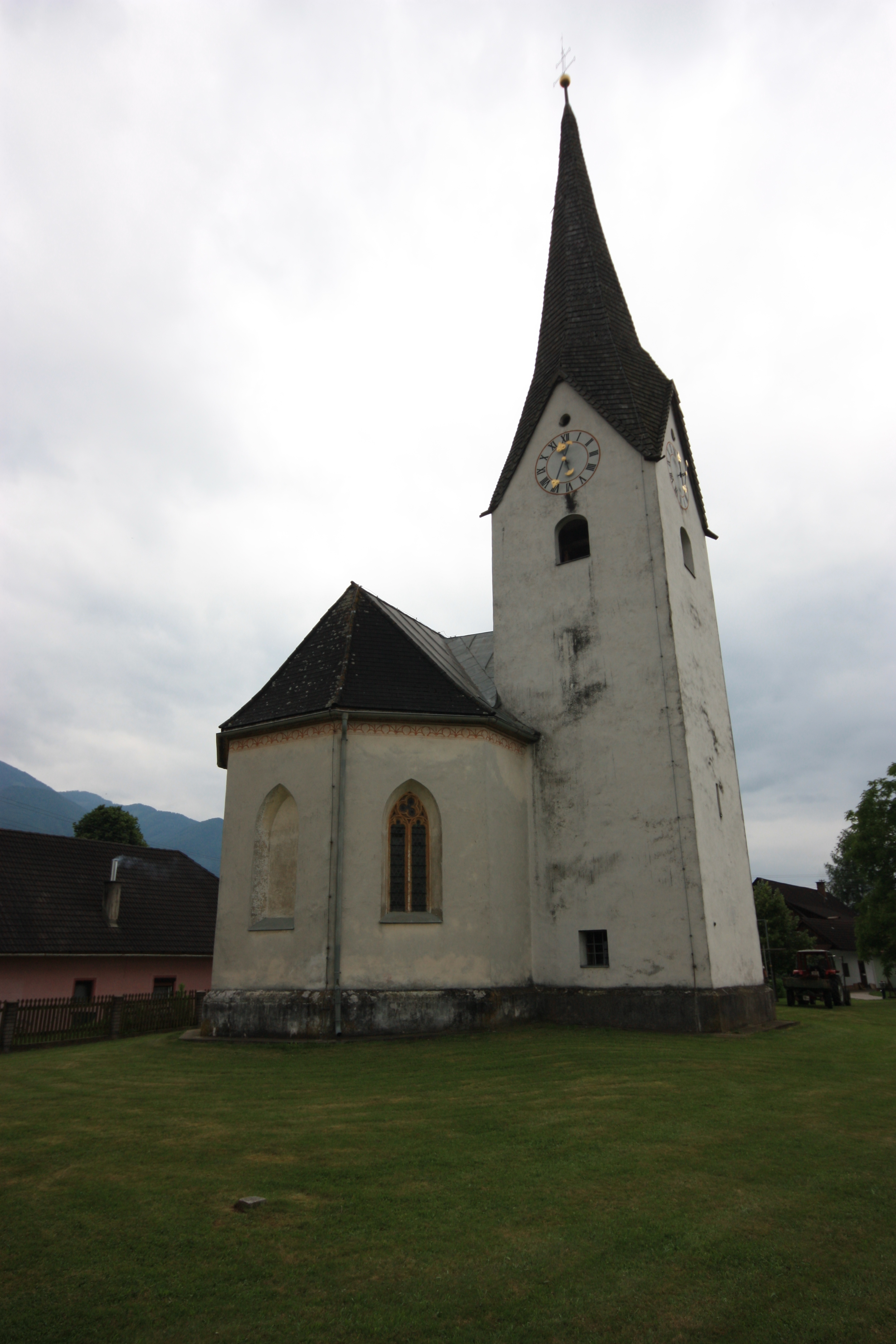 Church Saint Nikolaus in Hof (Dvor) in the community of Feistritz ob Bleiburg, Carinthia